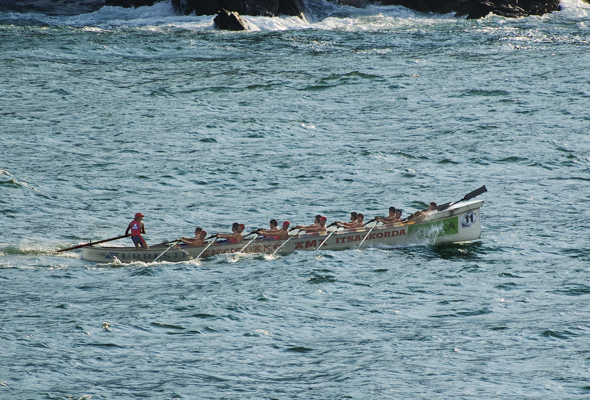 Classification run for the Flag of La Concha competition. The seven best times classificated for the race held on the first two weekends of September 2007. This team is Ondarroa, which with a time of 22'08.52" did 18th.